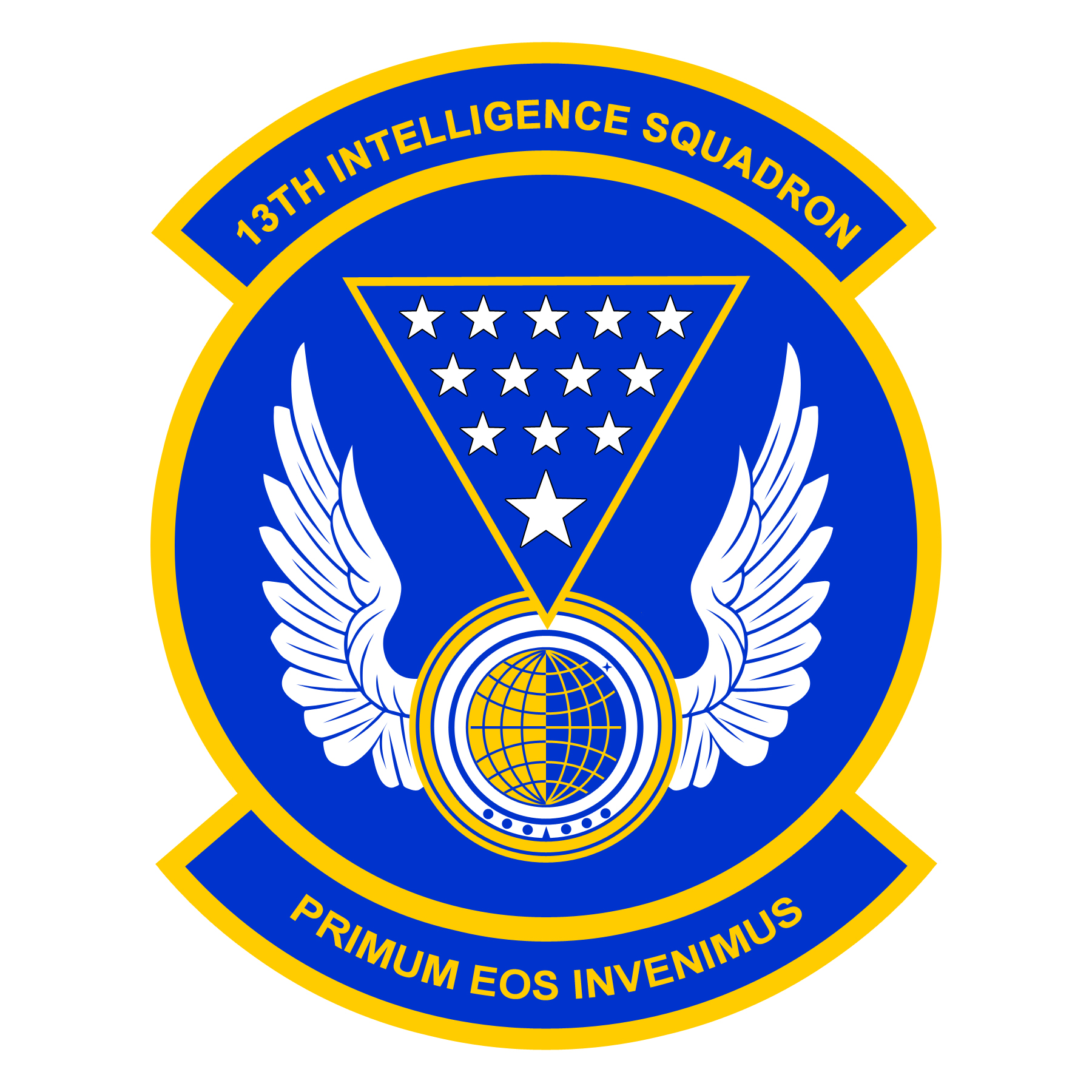 13th Intelligence Squadron emblem